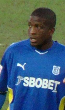 30/01/10 Cardiff V Doncaster, Championship, Cardiff City Stadium, Cardiff, Wales